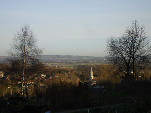 A view of Wheatley from Windmill Lane.